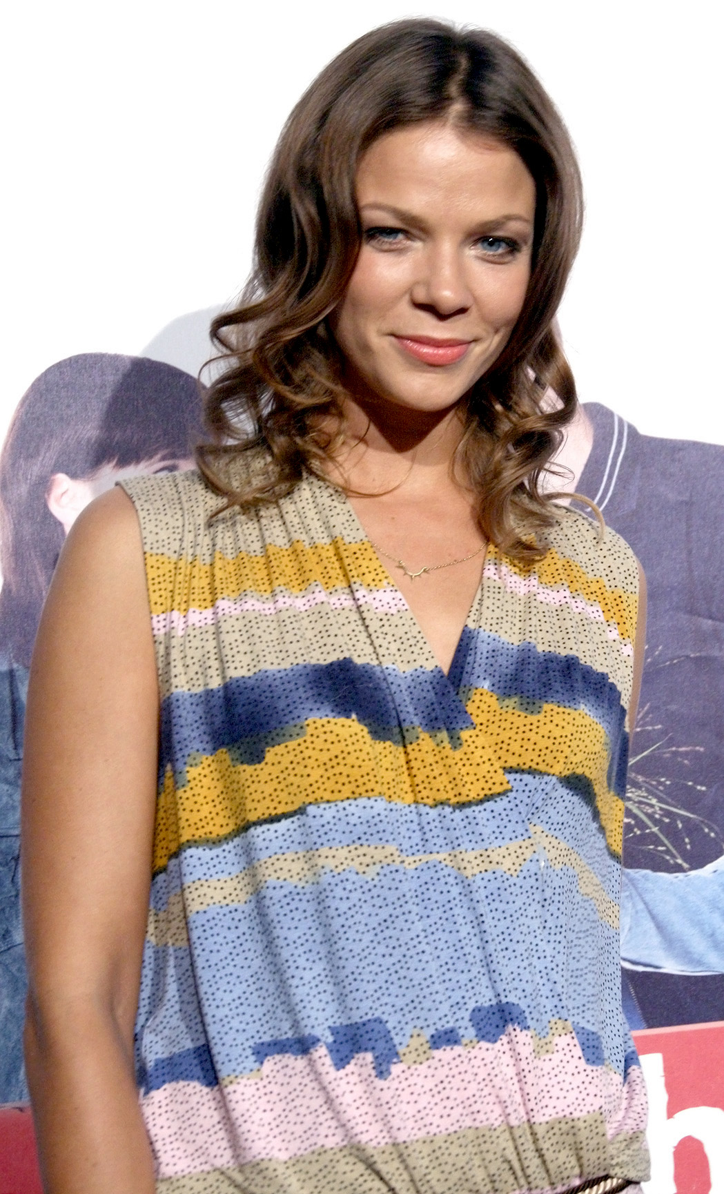 Jessica Schwarz at the Austrian premiere of Heiter bis wolkig at Urania cinema in Vienna, Austria.